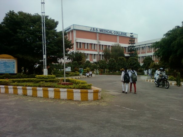 students in JSS Medical College